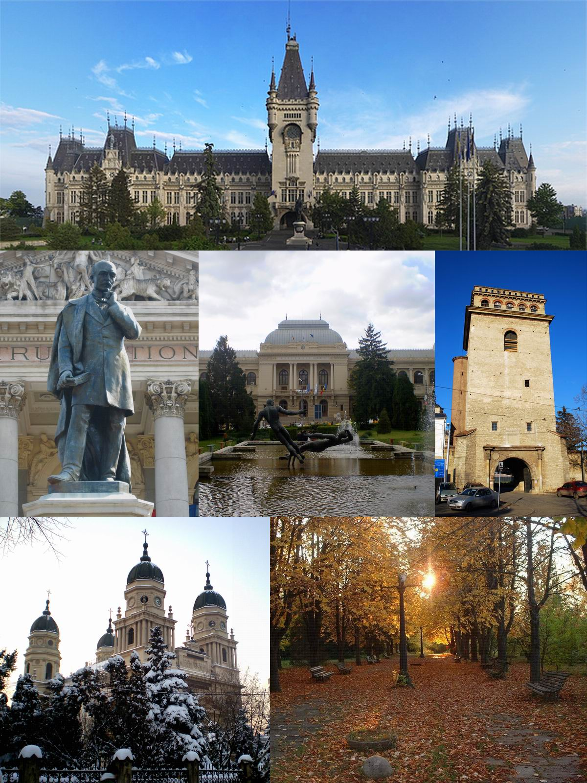 Top to bottom (left to right): (top row) Palace of Culture; (middle row) Vasile Alecsandri Statue in front of the National Theatre, "Alexandru Ioan Cuza" University, Golia Tower; (bottom row) Metropolitan Cathedral, Botanical Garden